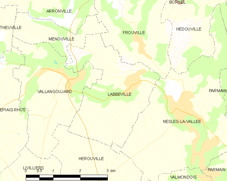 Map of French municipality Labbeville